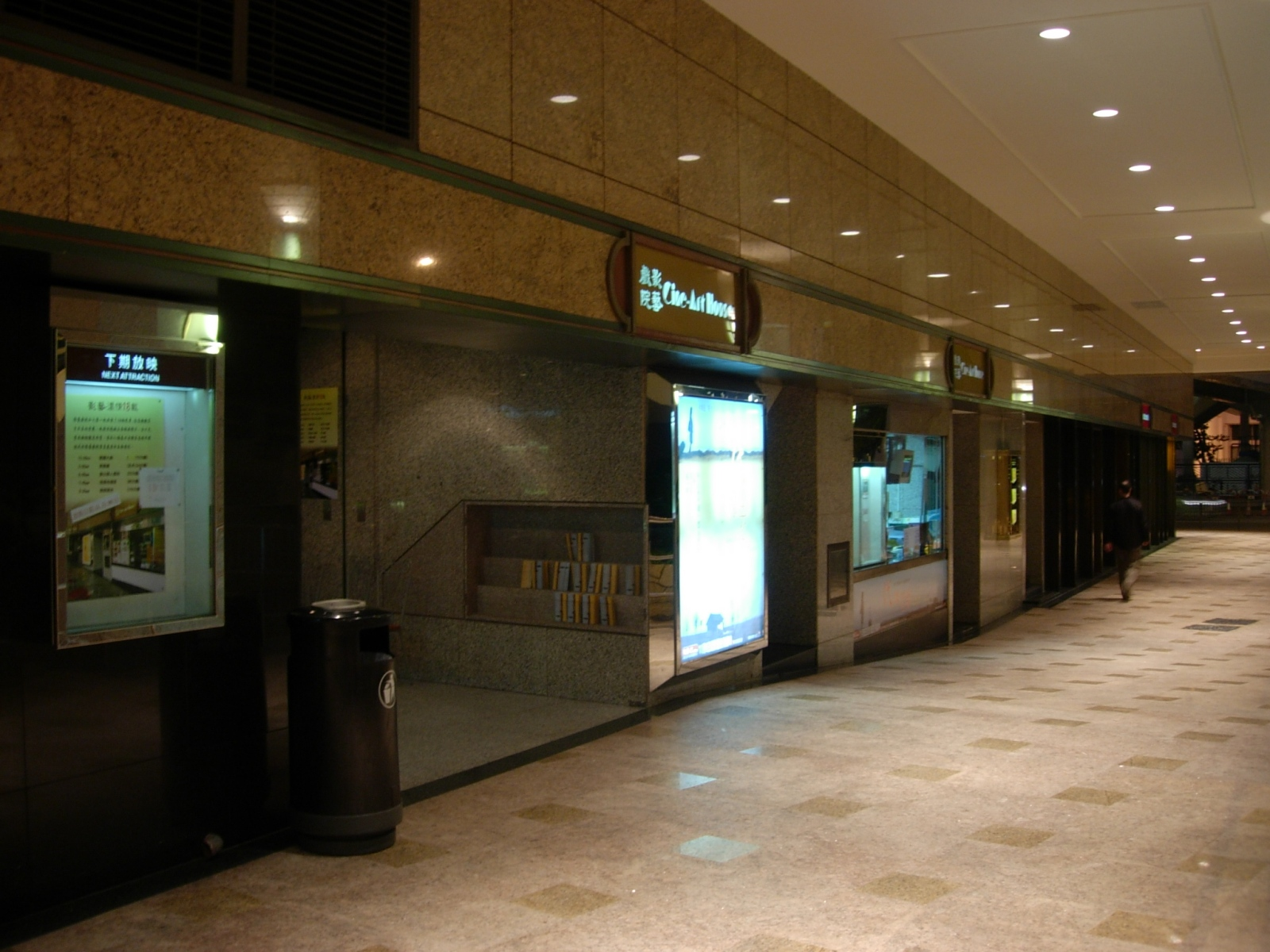 Cine Art House The cinema opened to business on 9th July 1988. It closed its doors on 1st December, 2006. It was on the ground floor of the Sun Hung Kai Centre. [1]